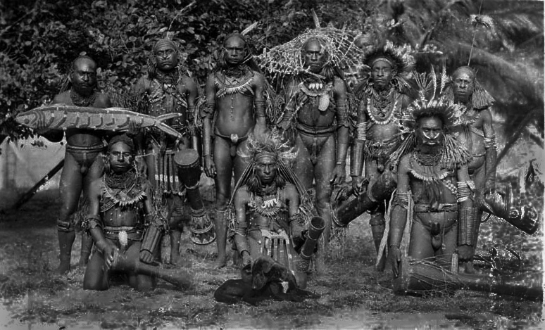 Marind-Anim men dressed for ceremony, south coast Dutch New Guinea. Early real photo postcard, c 1920's (not postally used)